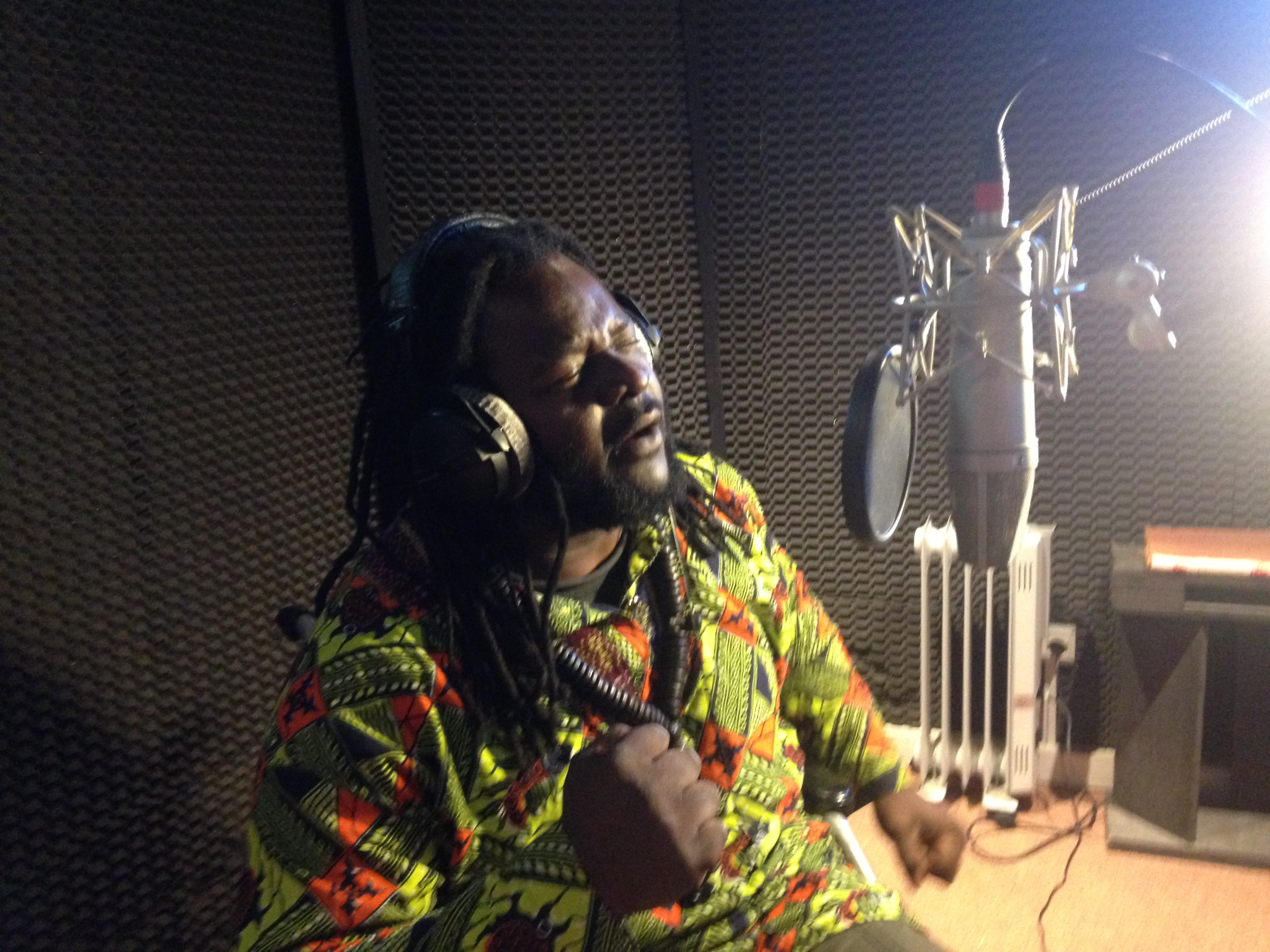 reggae musician singing 2017